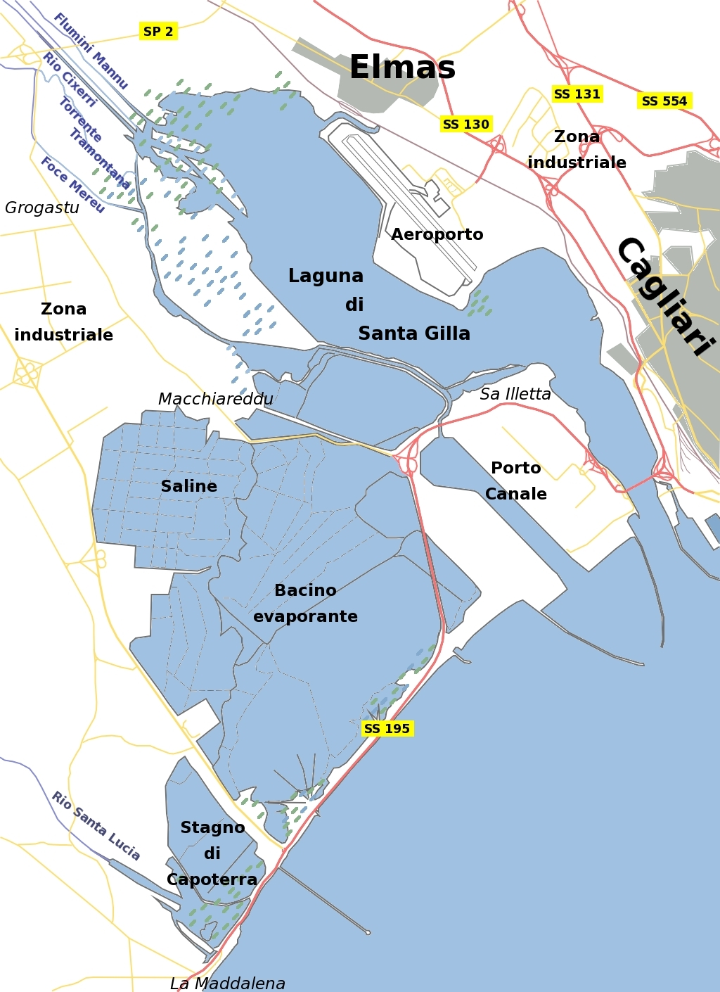 Map of the Pond of Cagliari, also improperly named Pond of Santa Gilla (Sardinia, Italy)